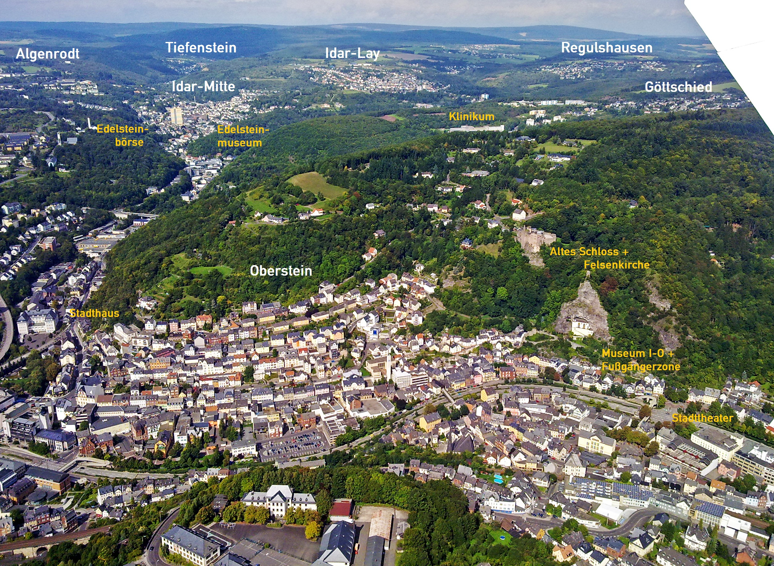 View over the centre of Idar-Oberstein, northwards.